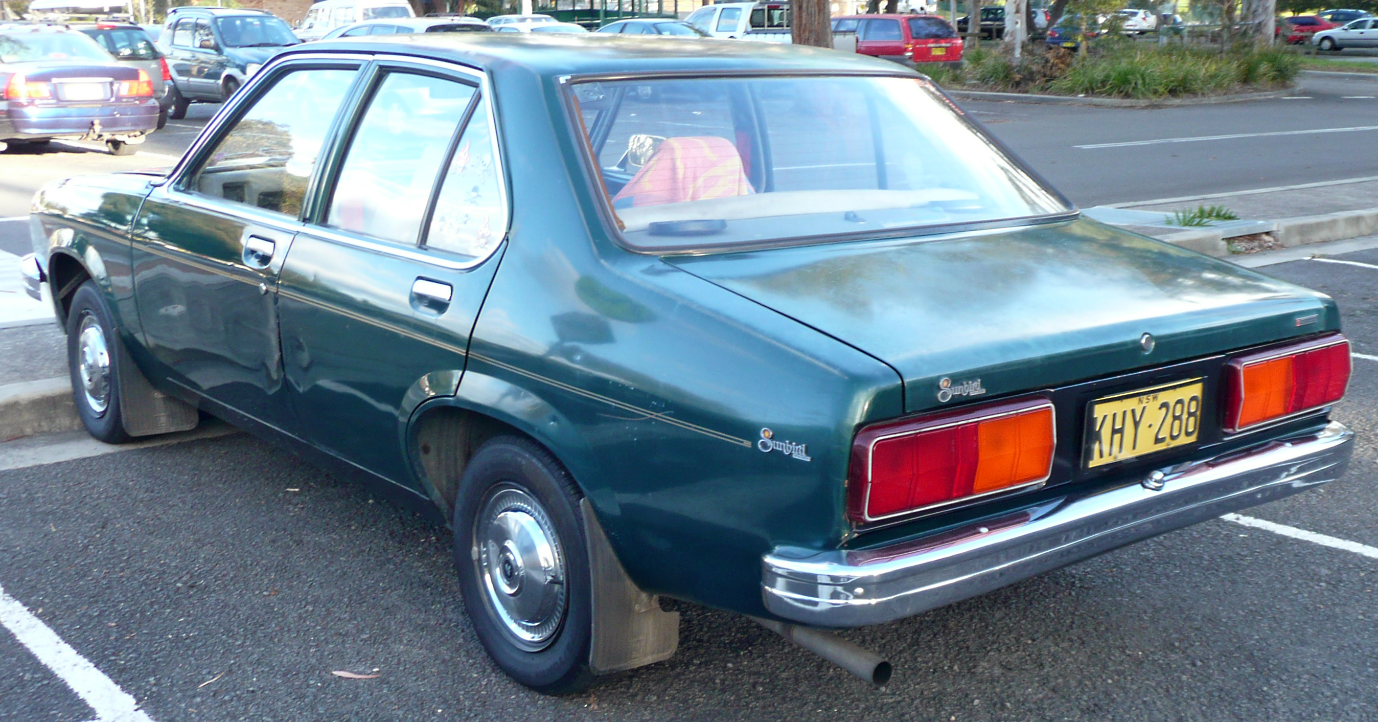 1978 Holden UC Sunbird sedan. Photographed in Sutherland, New South Wales, Australia.